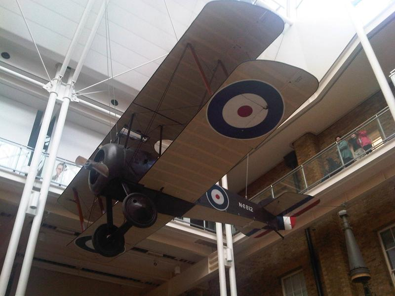 Sopwith Camel at the Imperial War Museum in London.